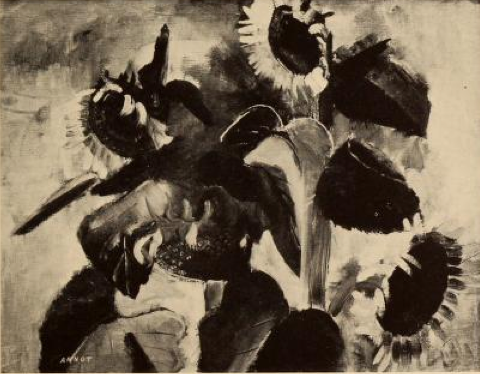 Black and white photograph of a color painting, "sunflowers" 1929, by Annot (December 27, 1894 - October 20, 1981)